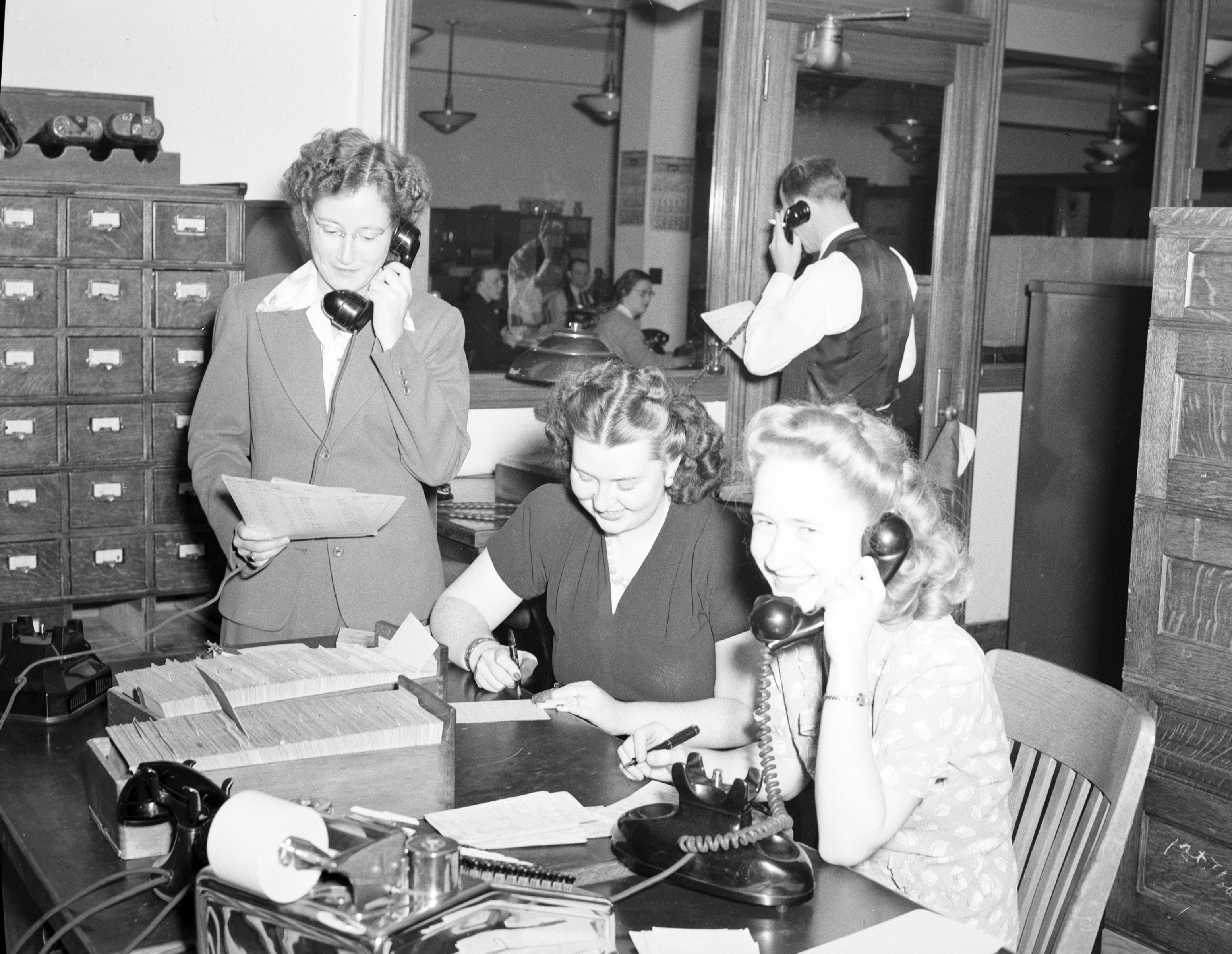 City Light customer account operators, 1945 Item 19292, City Light Photographic Negatives (Record Series 1204-01), Seattle Municipal Archives.